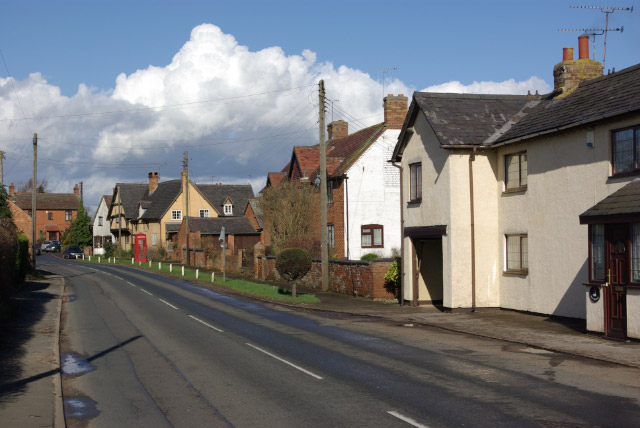 Bretford Taken from just north of the bridge over the River Avon along the A428 through this small but attractive village.